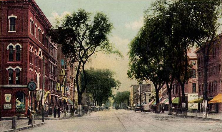 Elm Street, Manchester, NH; from a c. 1907 postcard.